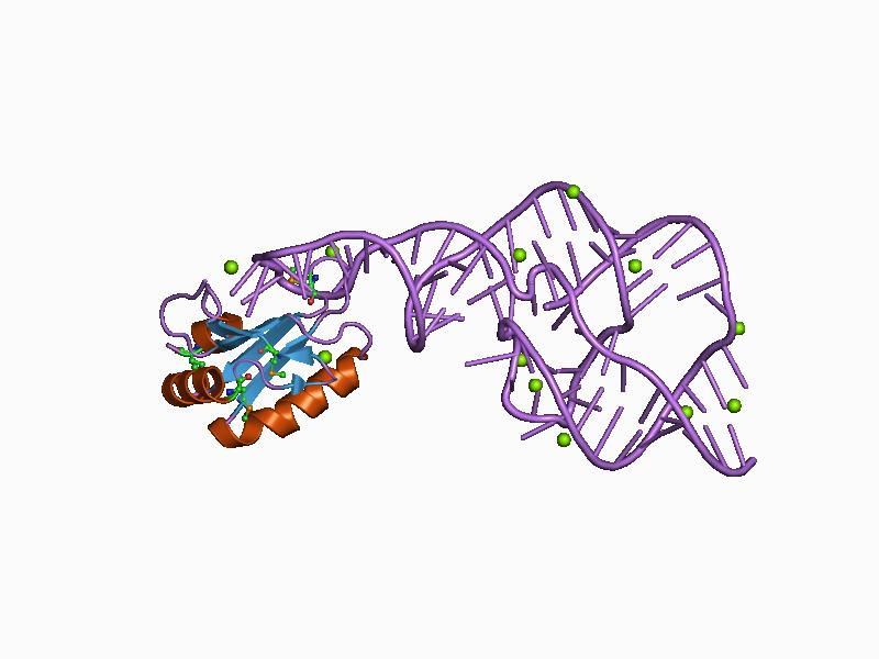 Cartoon representation of the molecular structure of protein registered with 1cx0 code.